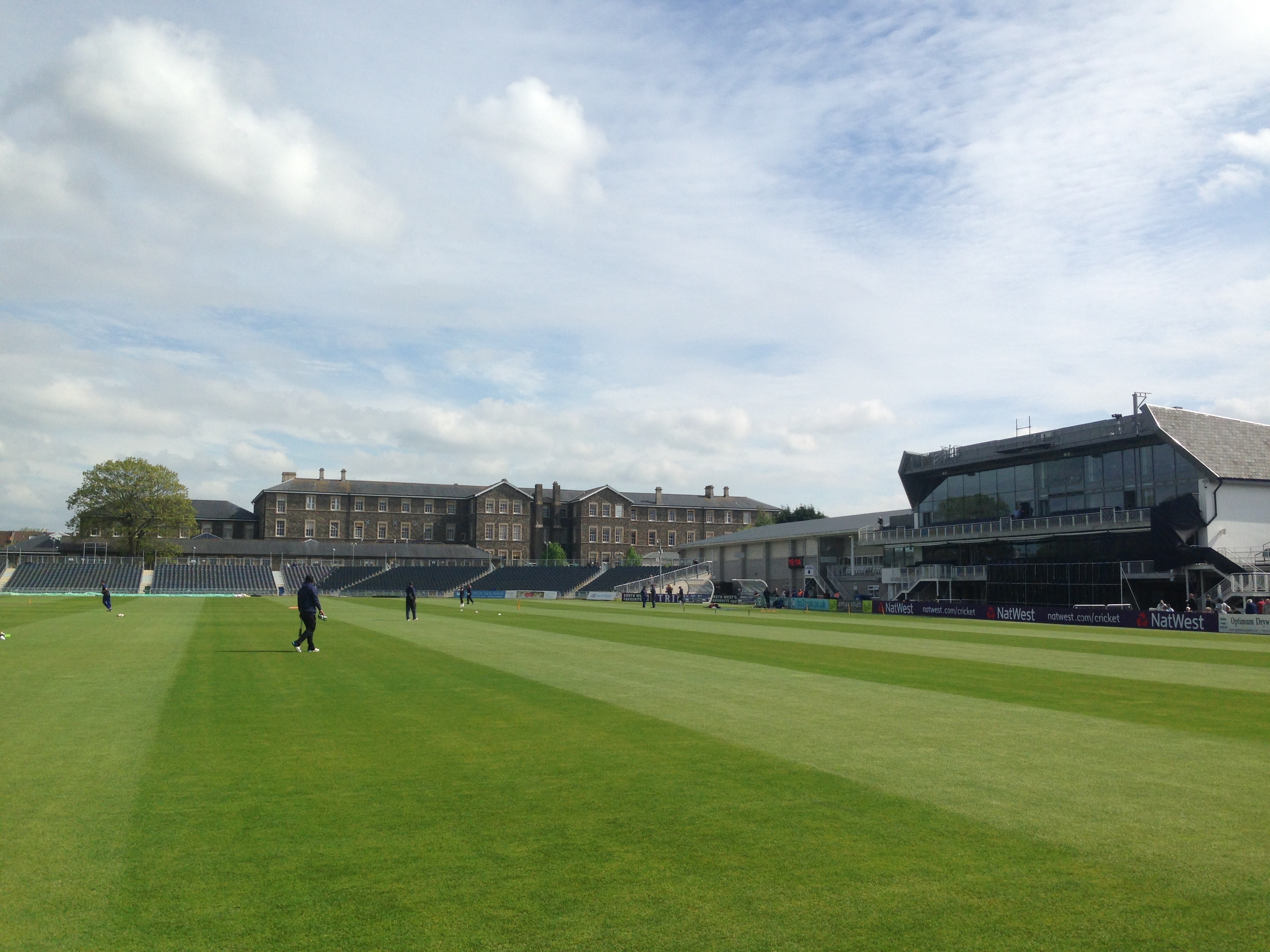 The Bristol Pavilion at Gloucestershire County Cricket Club's Bristol County Ground.